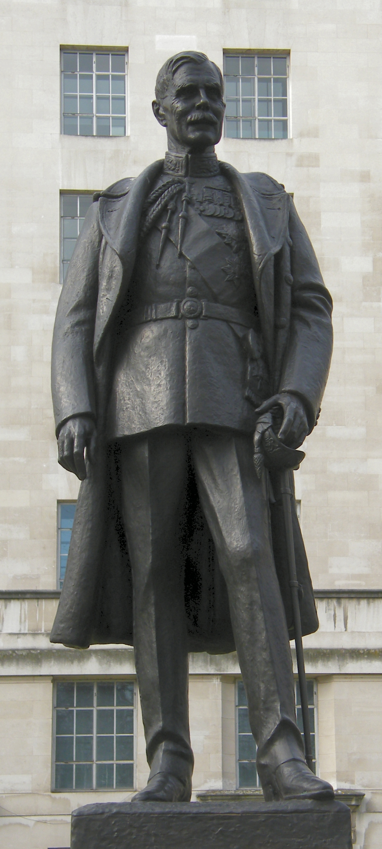 Lord Trenchard's statue by William McMillian on the Embankment, London